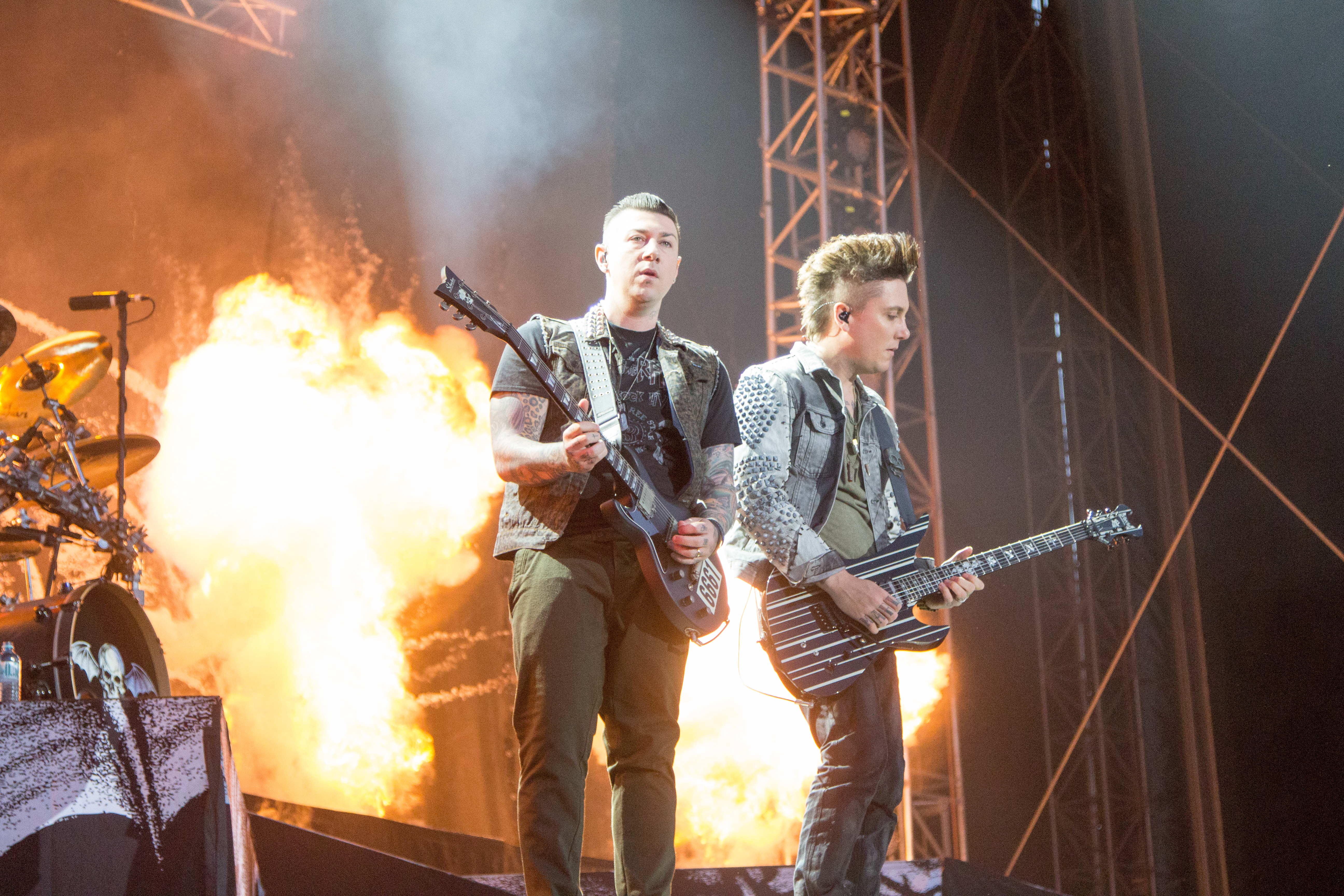 Zack Vengeance and Synyster Gates from Avenged Sevenfold at Nova Rock 2014